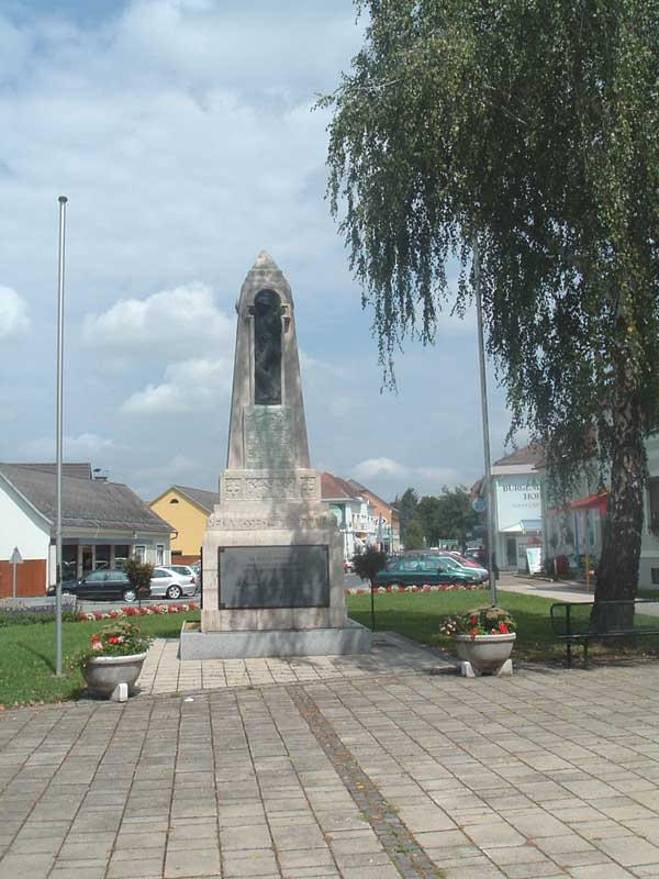 The World War Monument in Jennersdorf, Austria